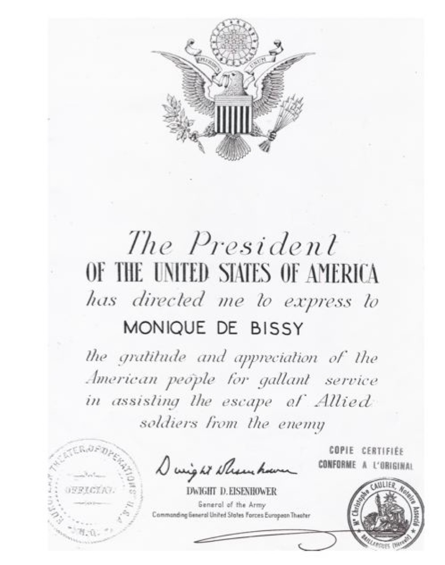 Monique de Bissy's citation for resistance by the US.